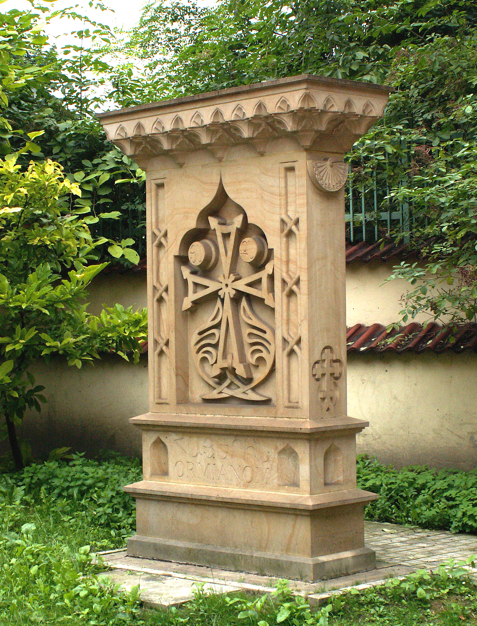 Khatchkar, 9 Kopernika street, Kraków, Poland